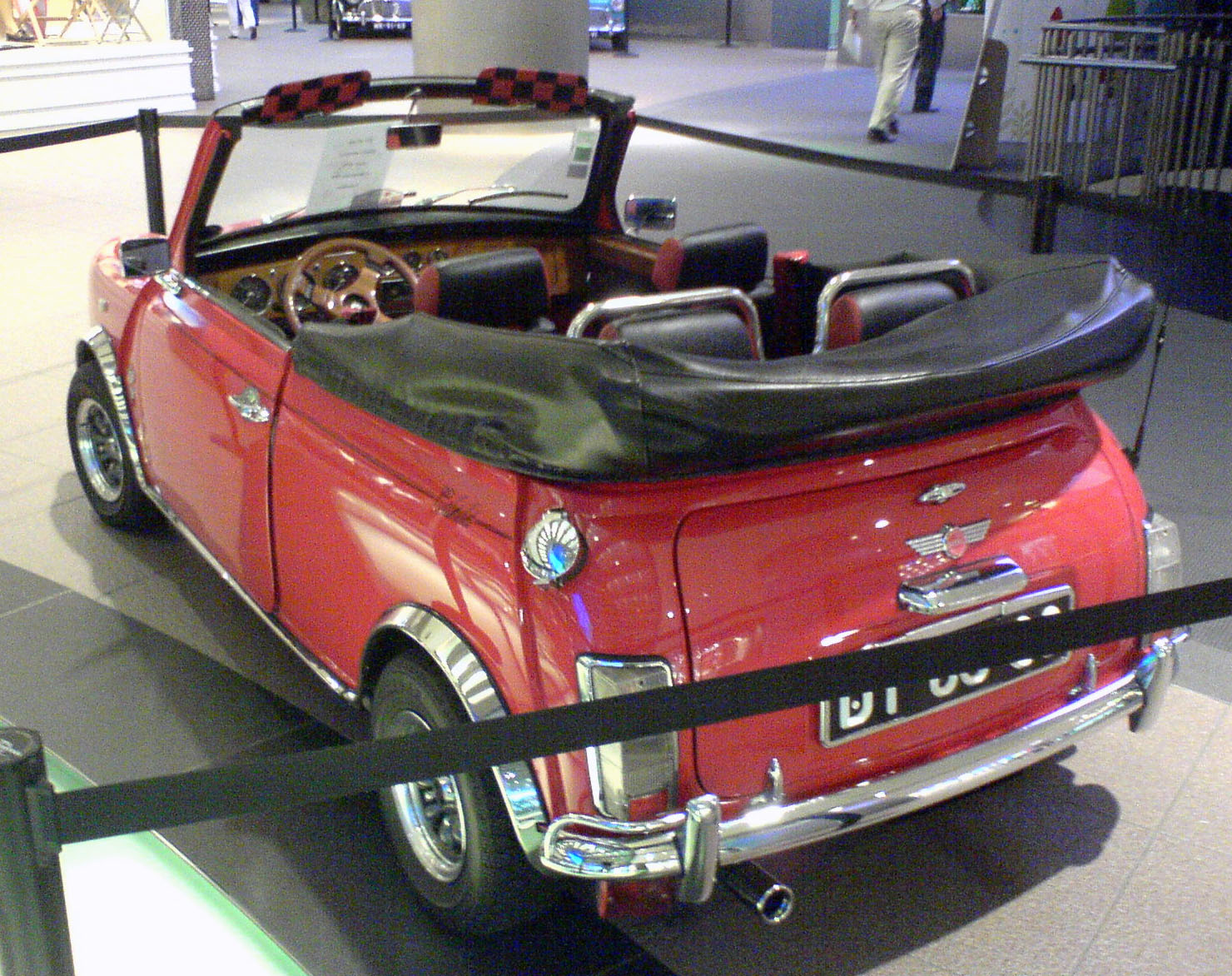 A Mini Cabriolet from 1975. Photographed inside the Dolce Vita shopping in Porto.